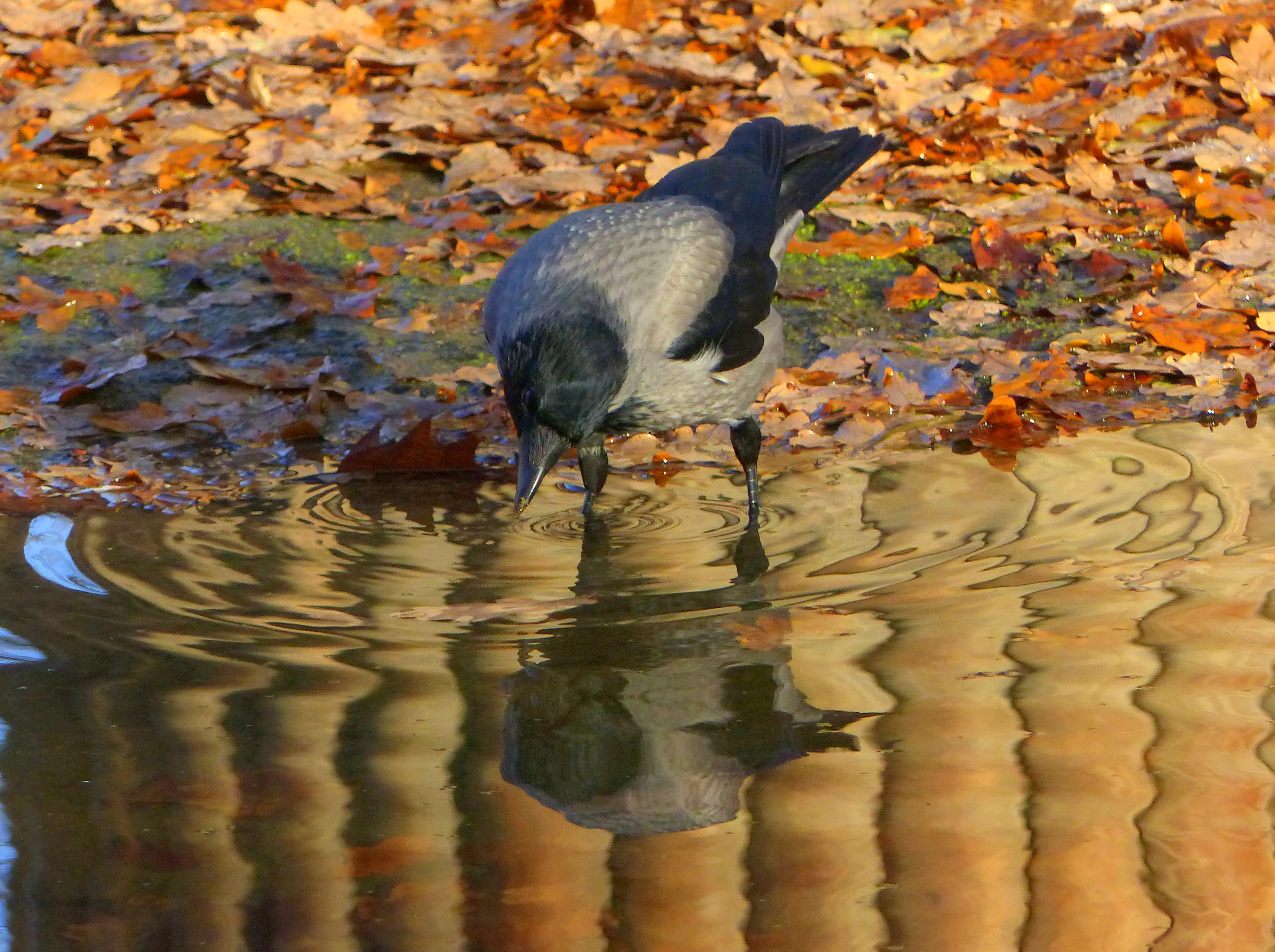 Nebelkrähe hoodiecrow - Corvus corone cornix